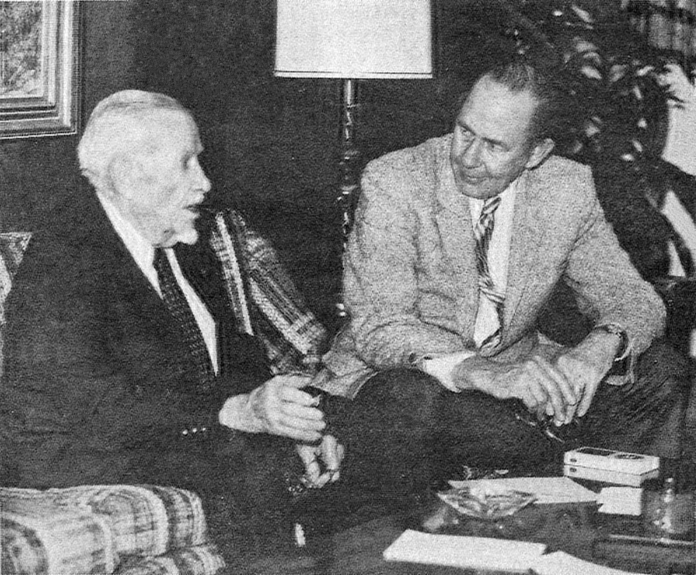 First EES (later known as GTRI) director, W. Harry Vaughan (left), director 1934-1940, visiting Director Don Grace, 1976-1992, in 1984. This was Vaughan's first visit to EES in 30 years.